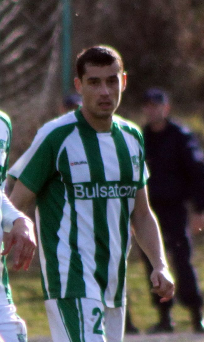 Aleksandar Tomash Tomovski (Bulgarian: Александър Томаш Томовски) (born 2 September 1978 in Sofia) is a Bulgarian football defender who plays for Beroe Stara Zagora in the A PFG.[1]